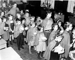 Thanksgiving Ceremony at the Avery Coonley School